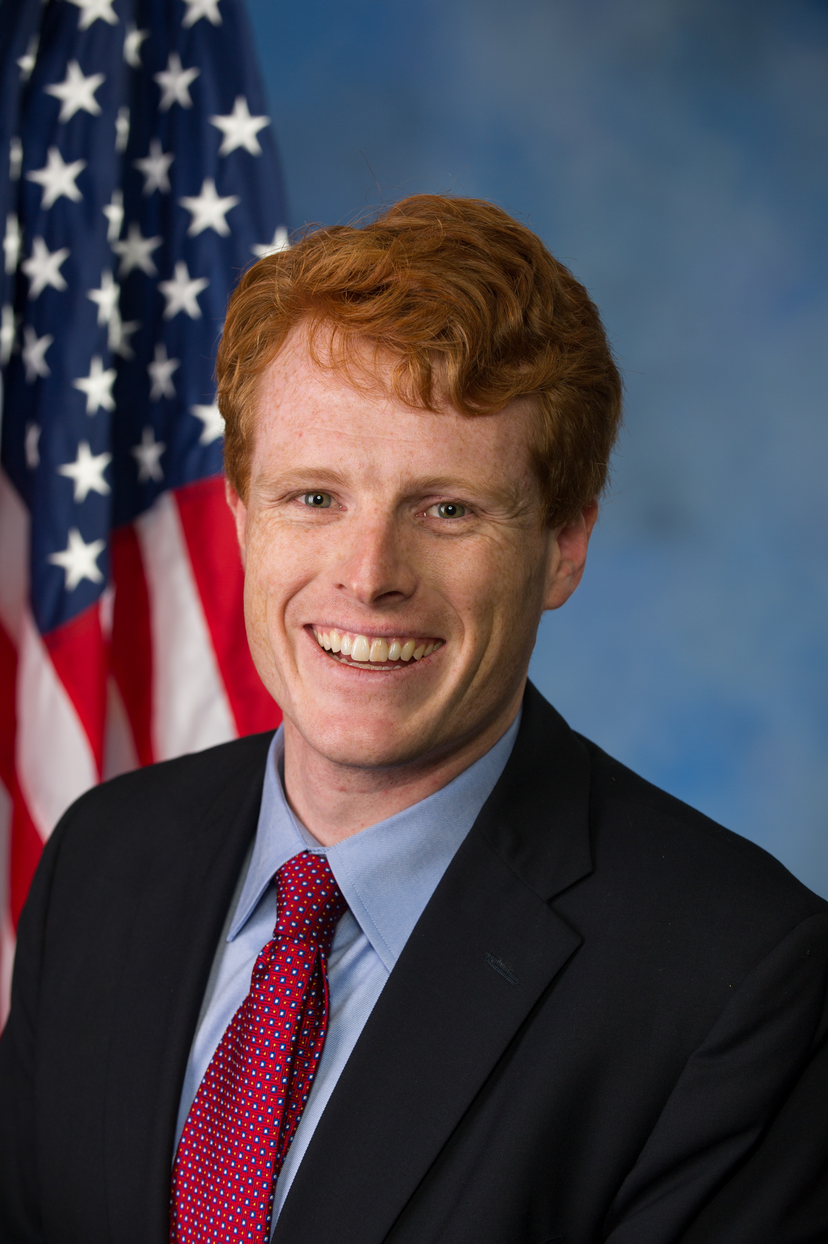 U.S. Representative Joseph P. Kennedy III